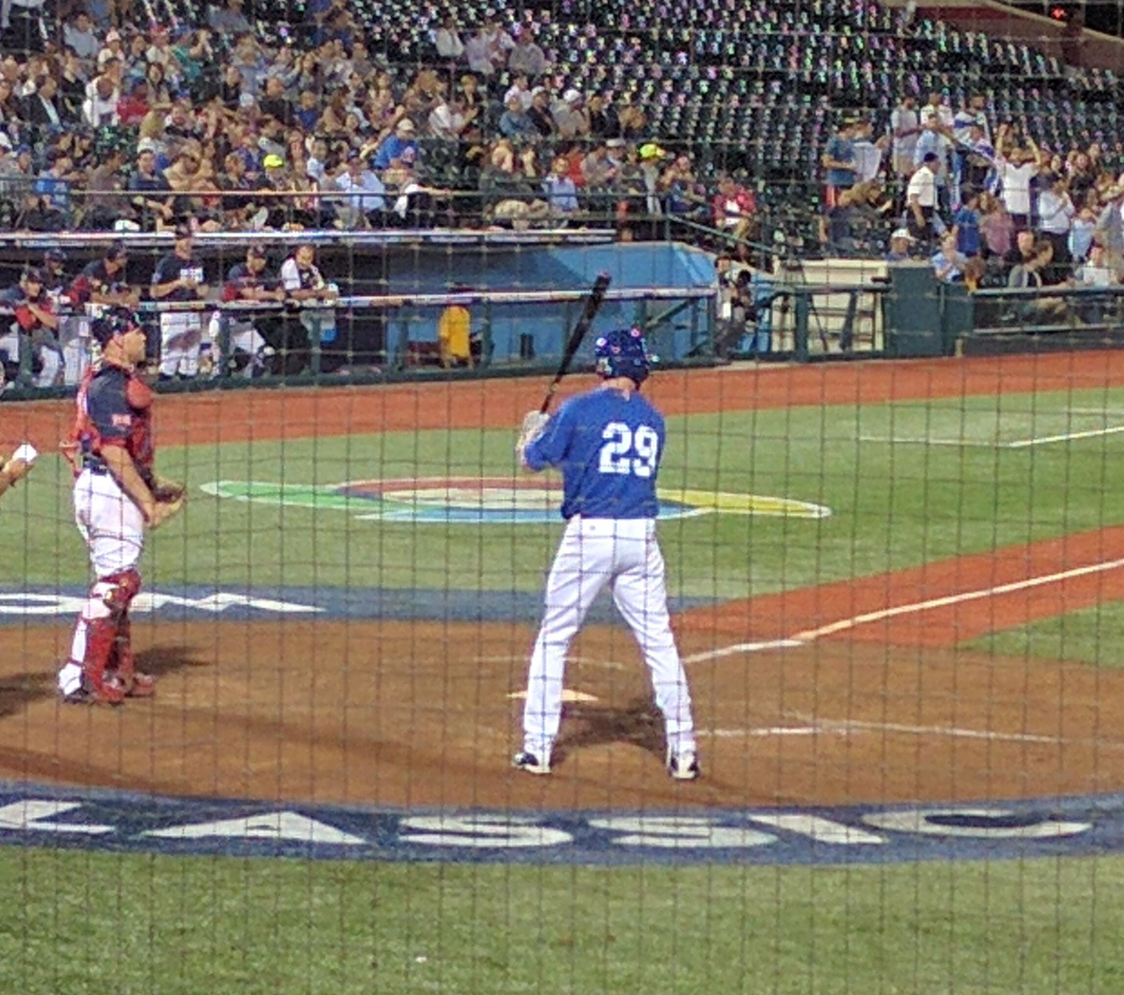 Photo I took of Ike Davis batting at the World Baseball Classic - GalatzTalk 17:13, 26 September 2016 (UTC)